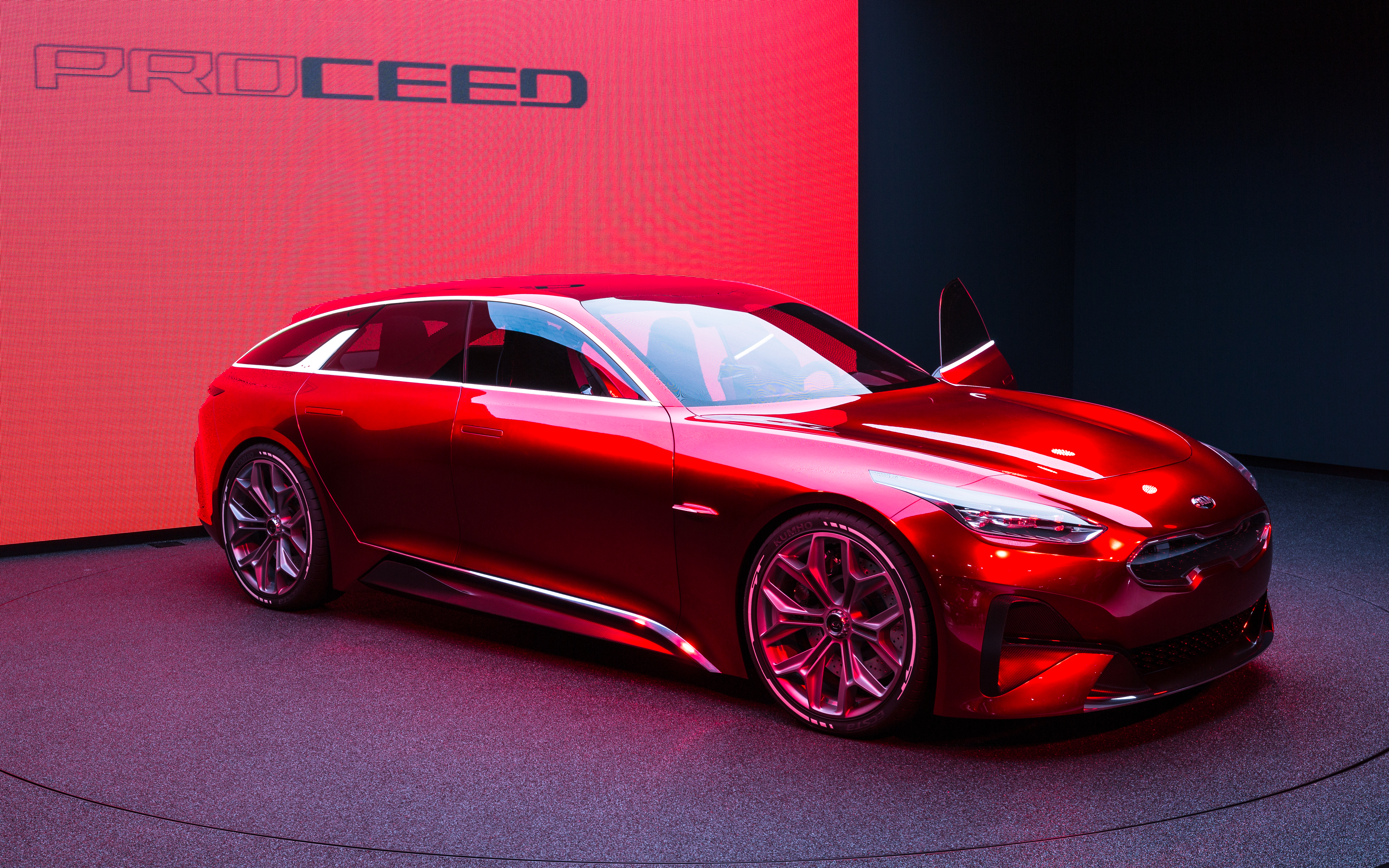 Kia Pro'Ceed Concept, IAA 2017